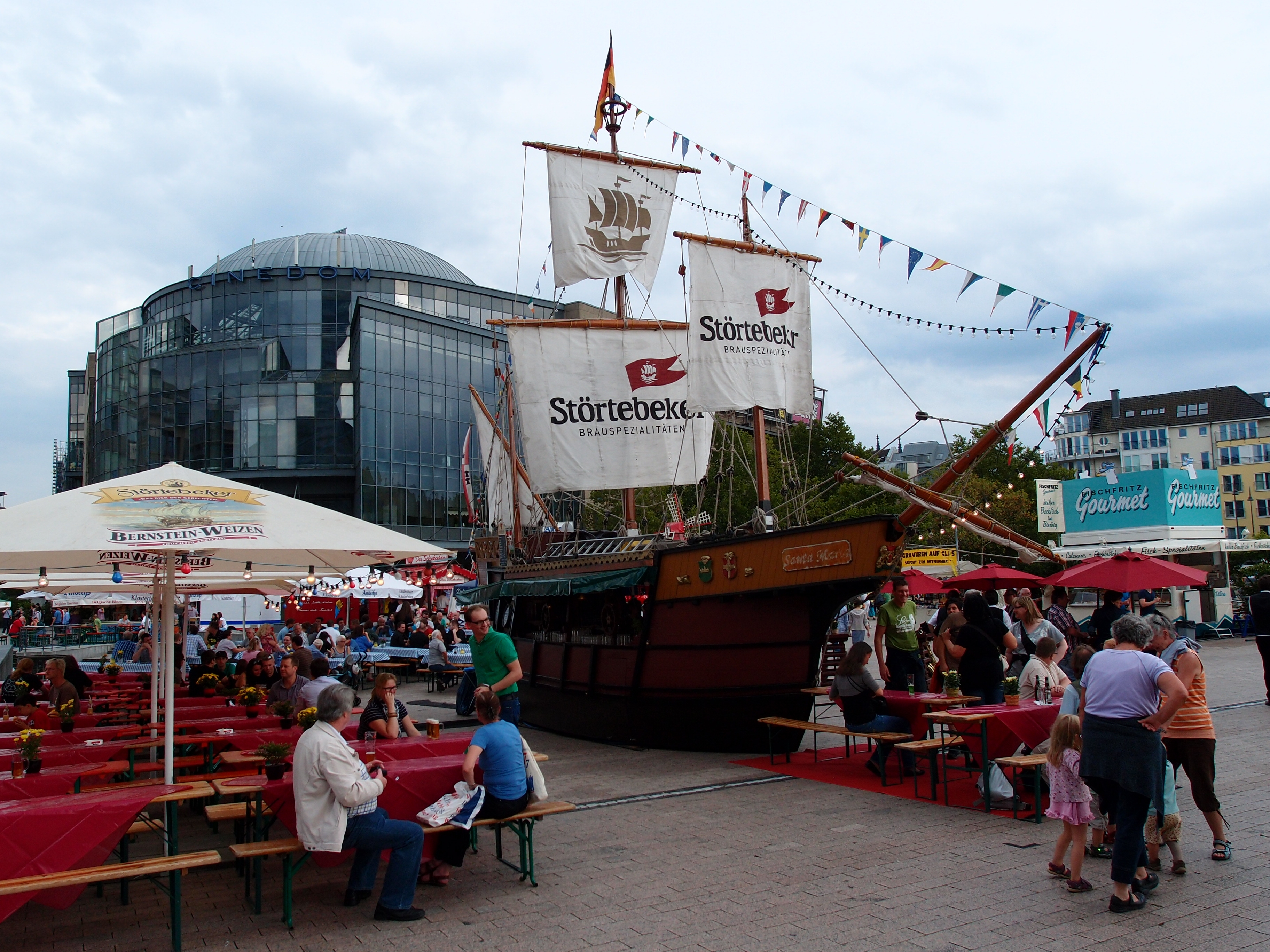 Kölner Bierbörse (August 2012), Mediapark Datum: 24.08.2012 Urheber: M. Pfeiffer alias Benutzer:Gordito1869 Quelle: privates Fotoarchiv des Urhebers